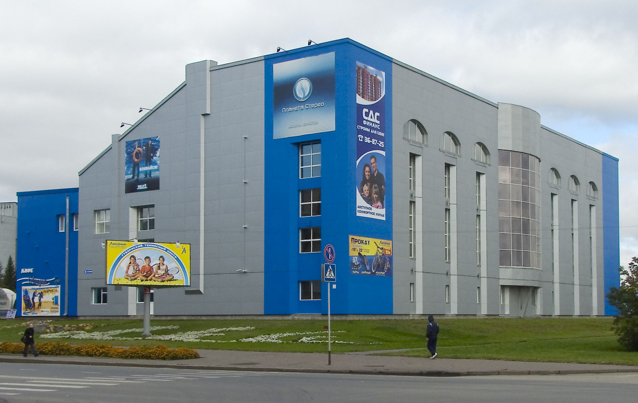 Aquatic Centre in Kemerovo.